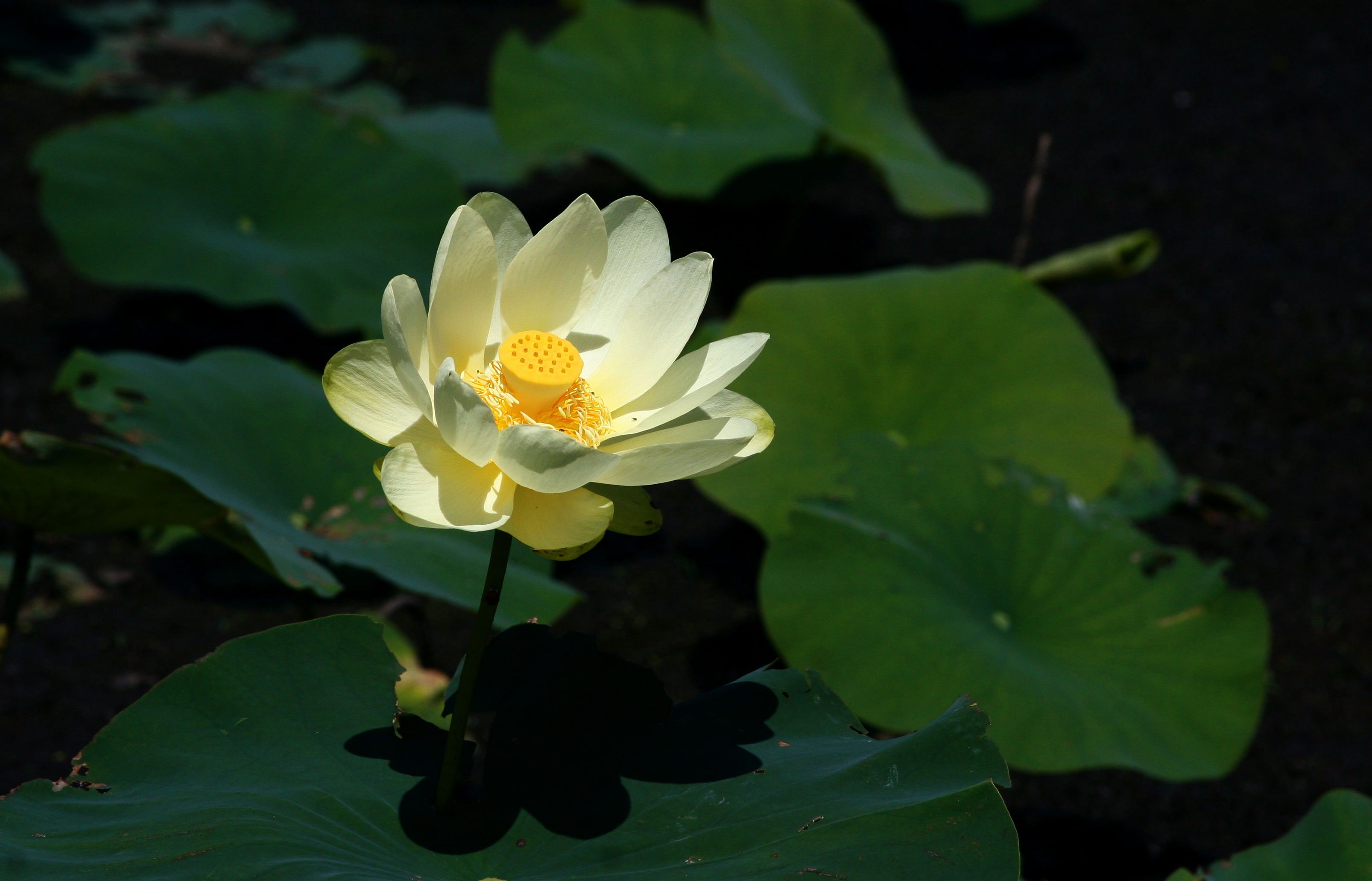 The American lotus (Nelumbo lutea) is sometimes mistaken for a water lily, but it has two main differences. One is the seed pod, which is shaped a bit like a space capsule. The other difference is the leaf shape. Water lilies are not completely round; they have a slit. The American Lotus has big round (or roundish) leaves with no slit. Some are a foot across.